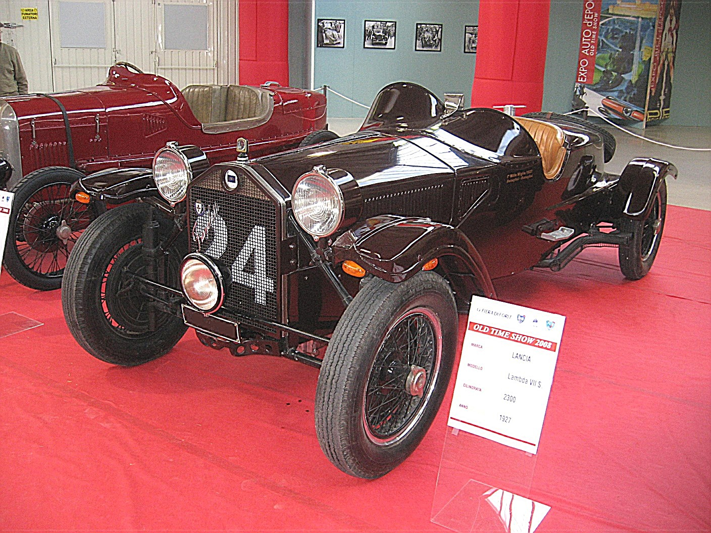 Subject:1927 Lancia Lambda Mark VII Author:Luc106 Date:March 15th, 2007 Event:Old Timer Show 2008 Place/Country: Forlì, Italy I release all rights in the public domain.